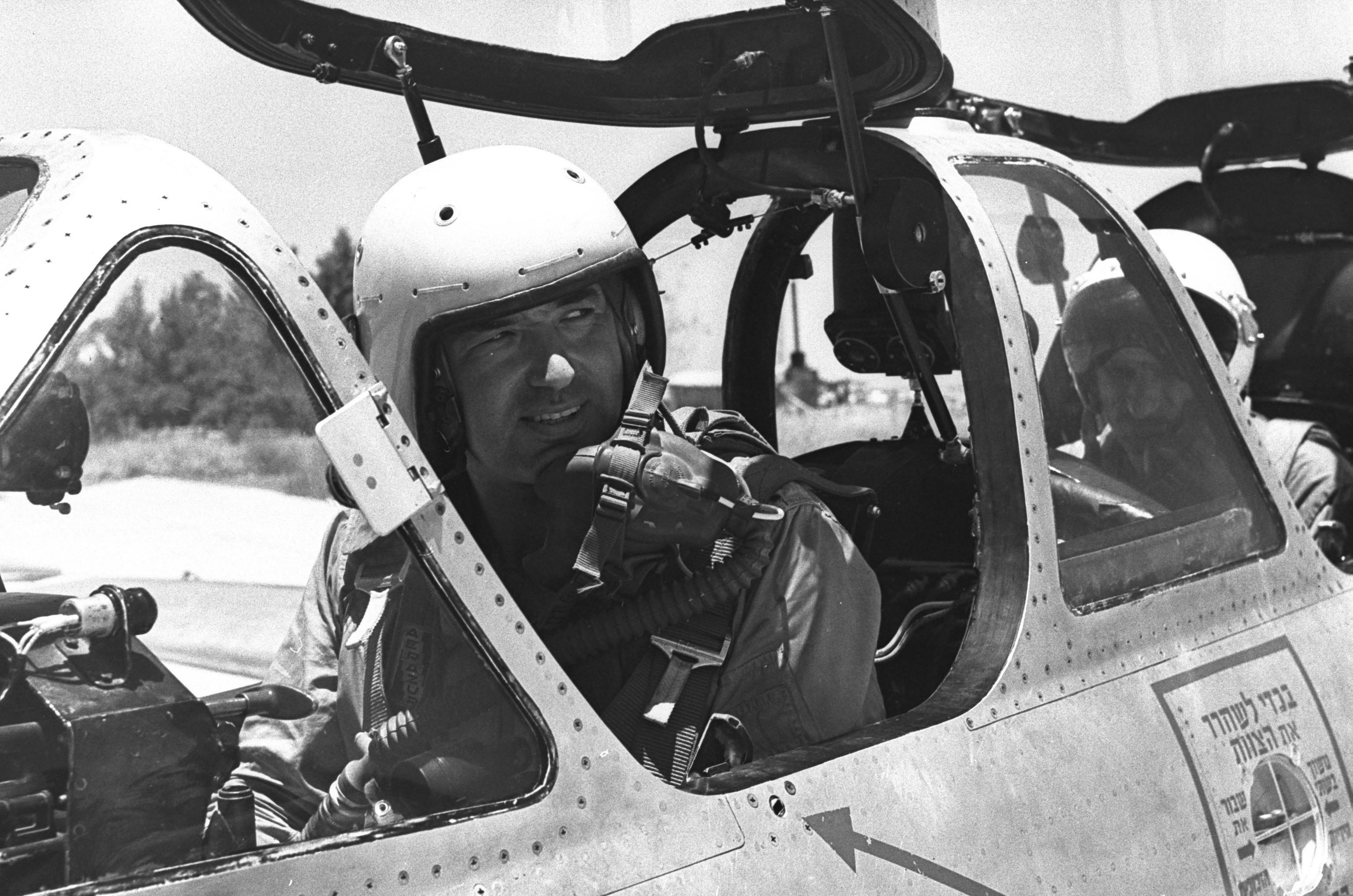 TEST PILOT HUGO MEROM IS READY FOR TAKE OFF IN THE FUGA-MAGISTER, THE FIRST JET TO BE ASSEMBLED IN ISRAEL, BY ISRAEL AIRCRAFT INDUSTRIES.